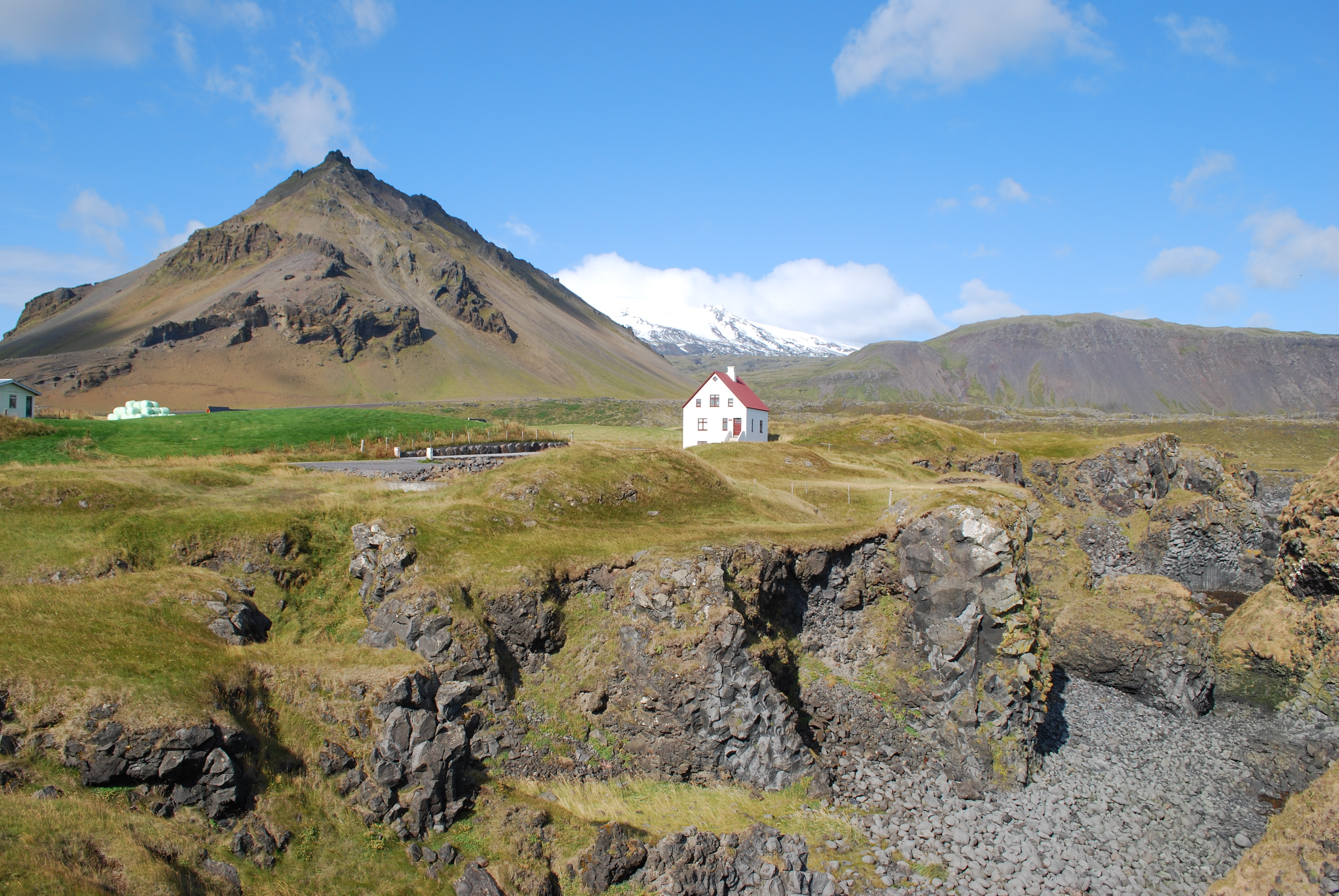 Arnarstapi village, Iceland